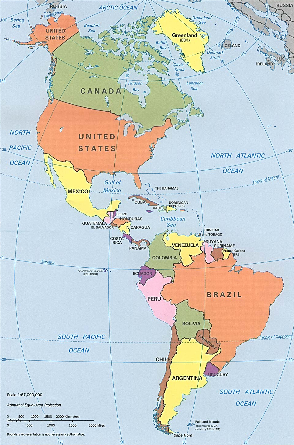 Americas with political boundaries